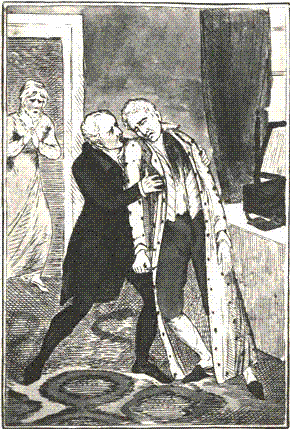 The creator died in 1878, so it's in the public domain